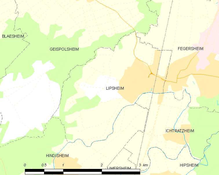 Map of French municipality